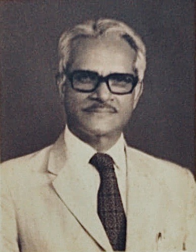 Profile Photo of A.T Markose